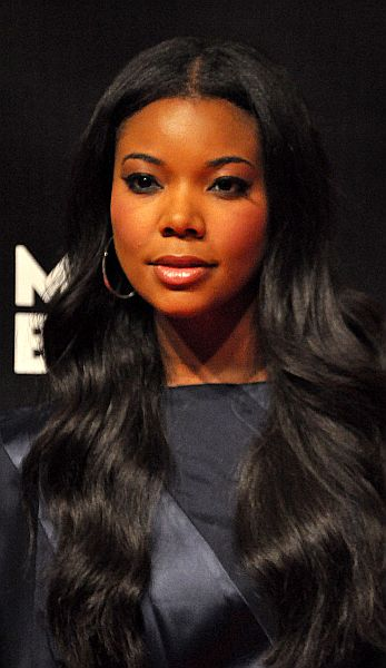 Actress Gabrielle Union attends "To John - With Peace & Love" Global Launch Of The Montblanc John Lennon Edition on September 12, 2010 at Jazz at Lincoln Center in New York City. (Photo © Nick Stepowyj)